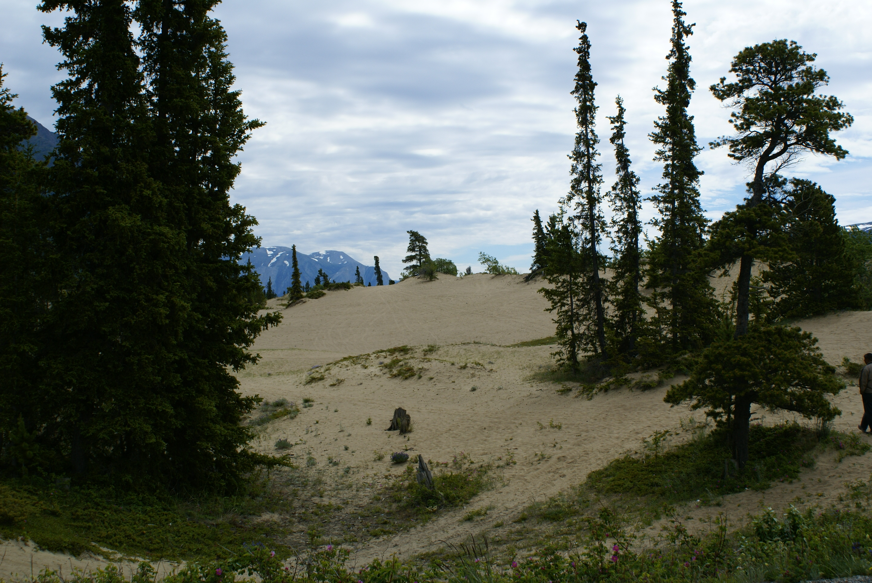 The Carcross Desert in the Yukon Territory